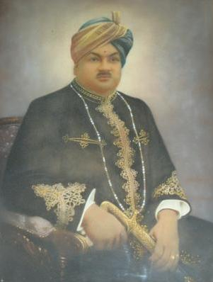 This is a picture of Raja Bahadur Kirtyanand Sinha